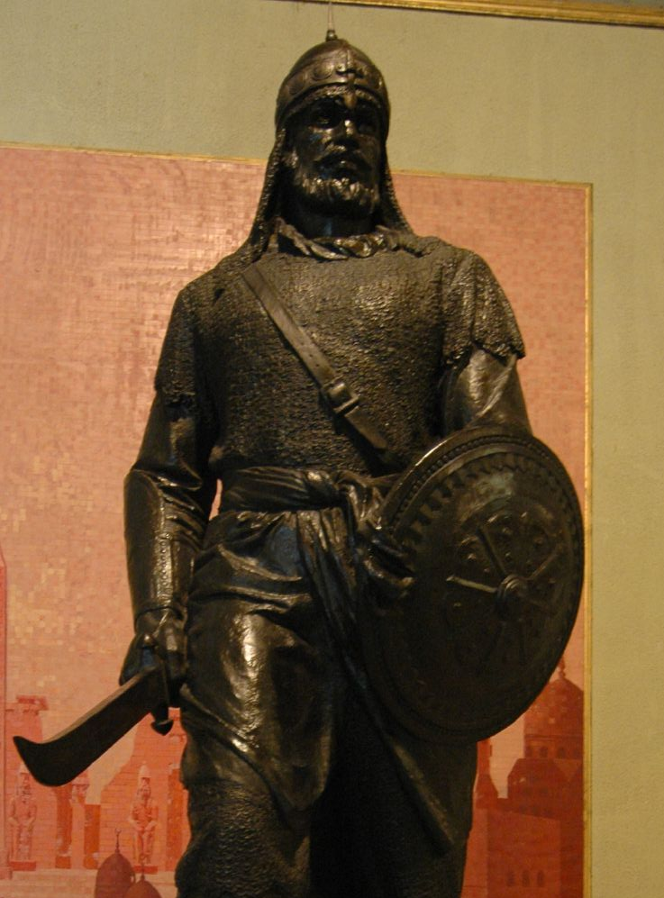 Saladino, the best soldier on earth...